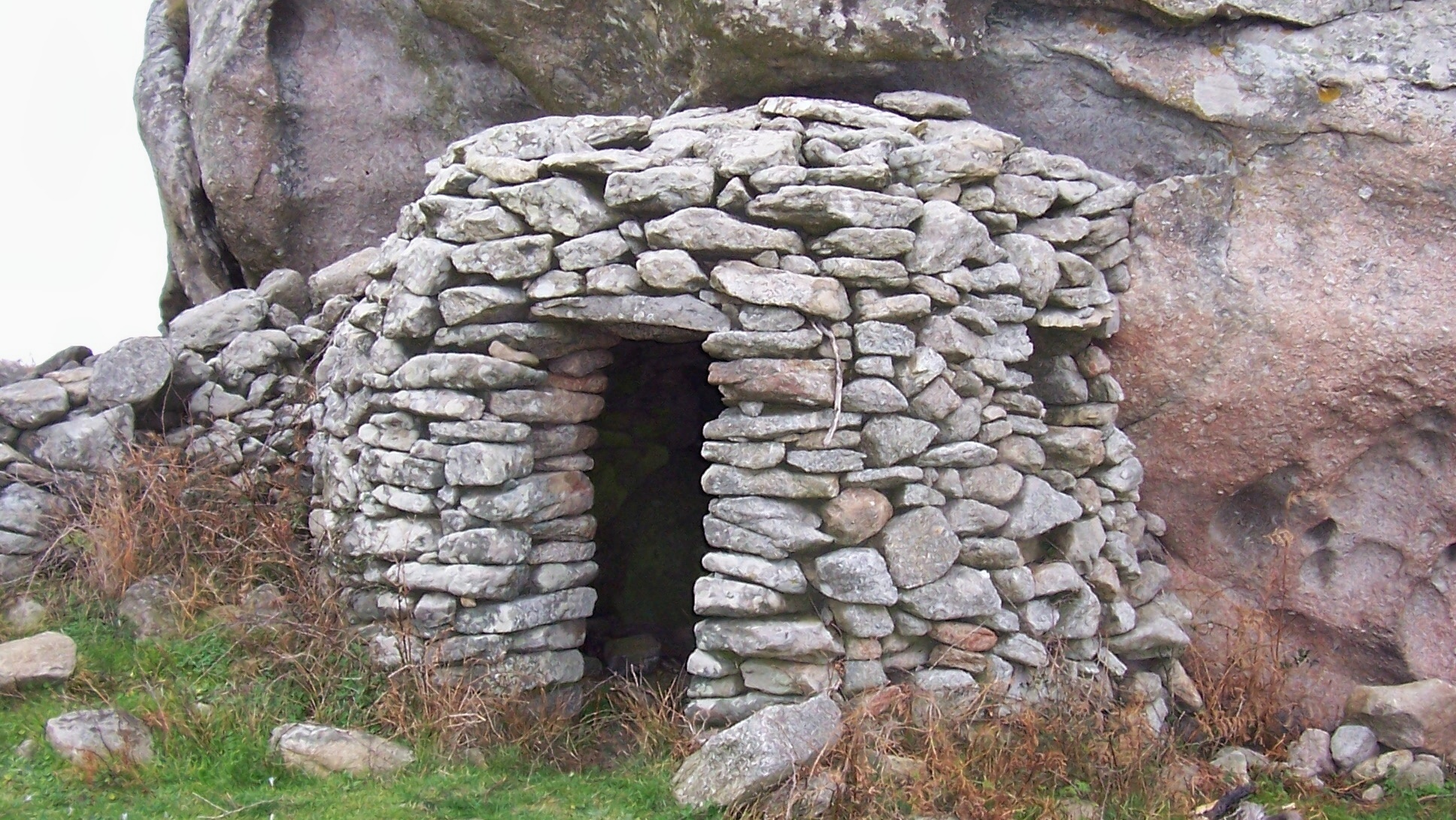 Elba island